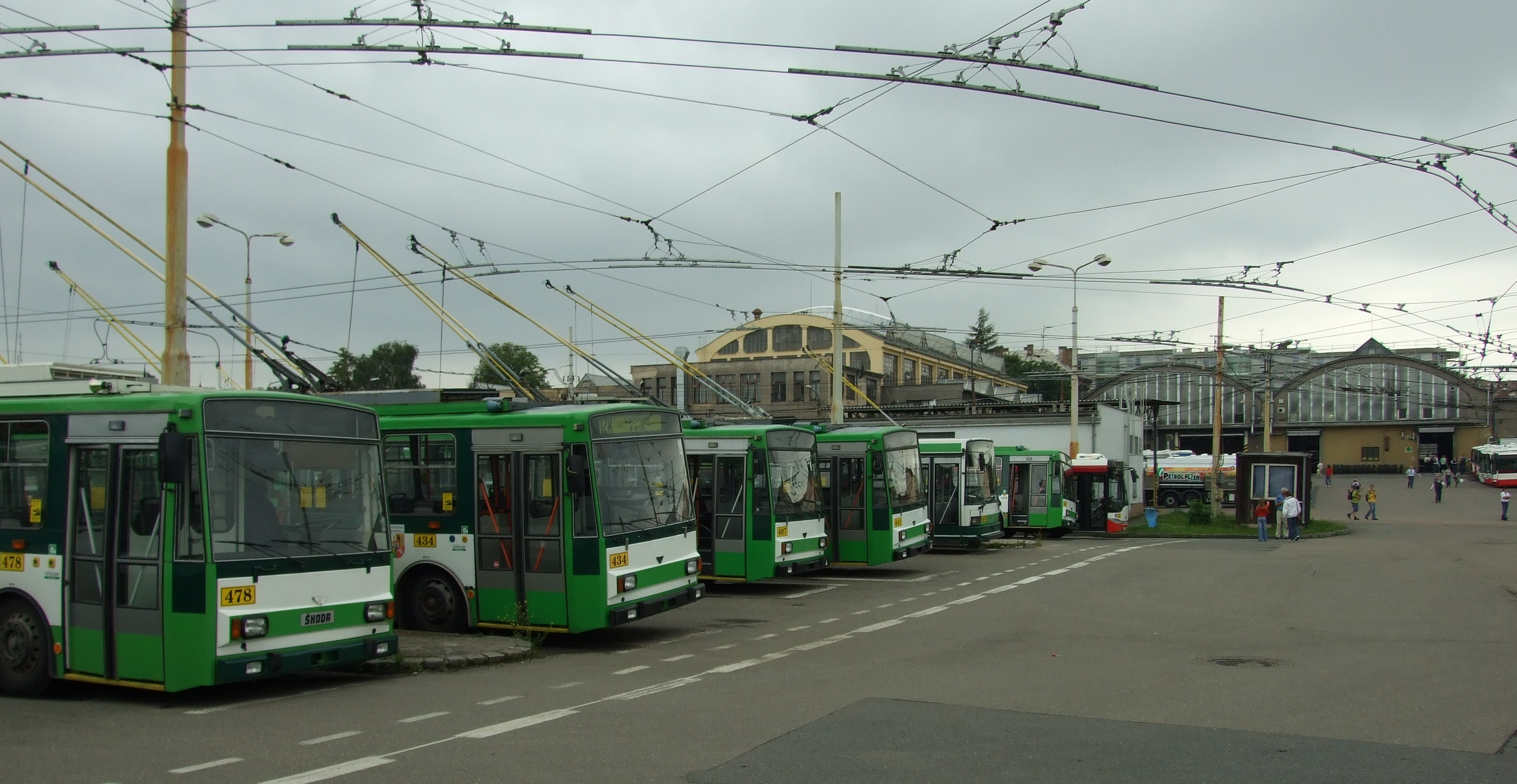 110th anniversary of public transport in Plzeň, Plzeň Region, CZ. Buses and trolleybuses of depot Cukrovarská in central-south part of Plzeňhelp